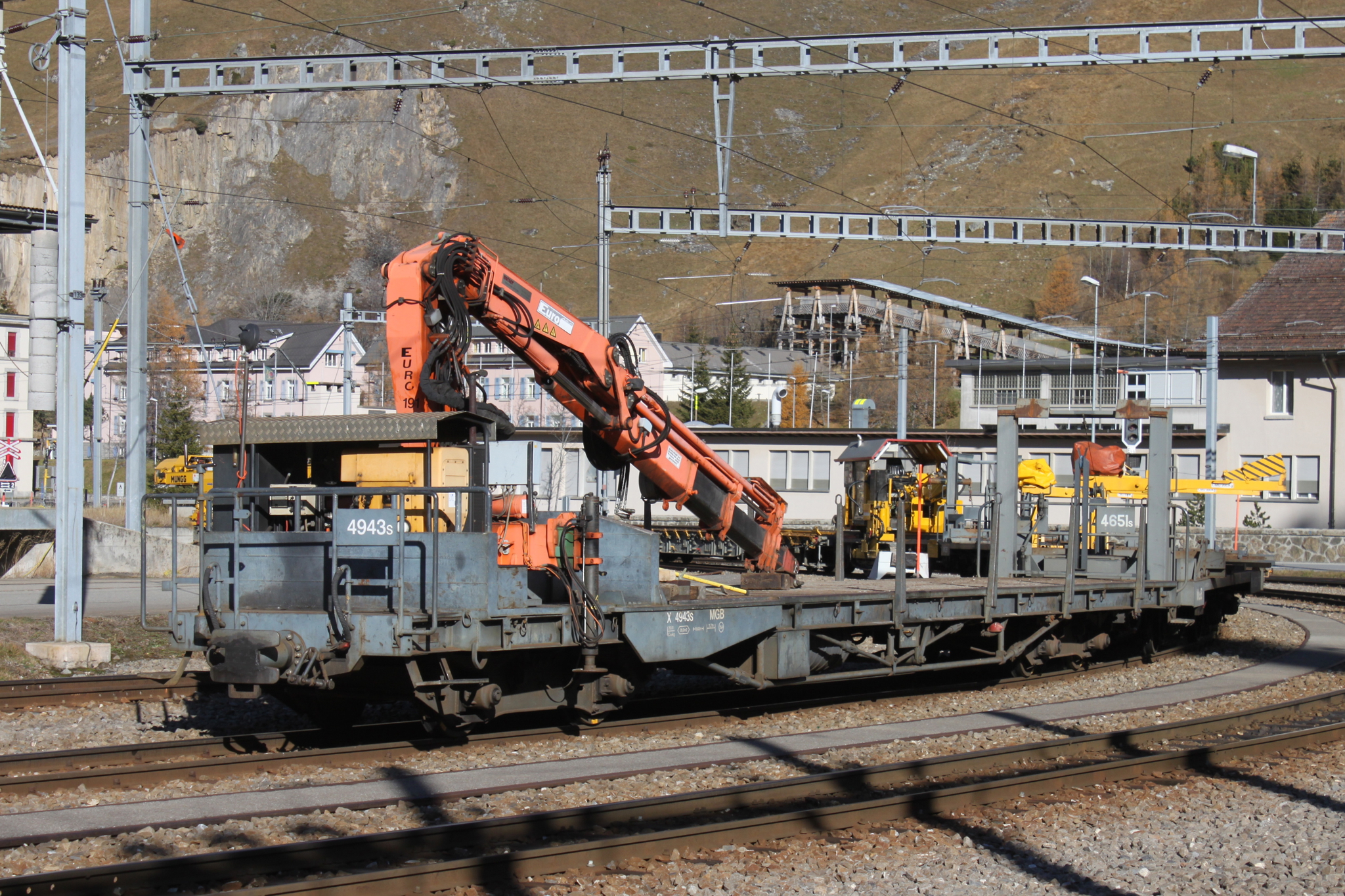 MGB X 4943s at Andermatt train station.